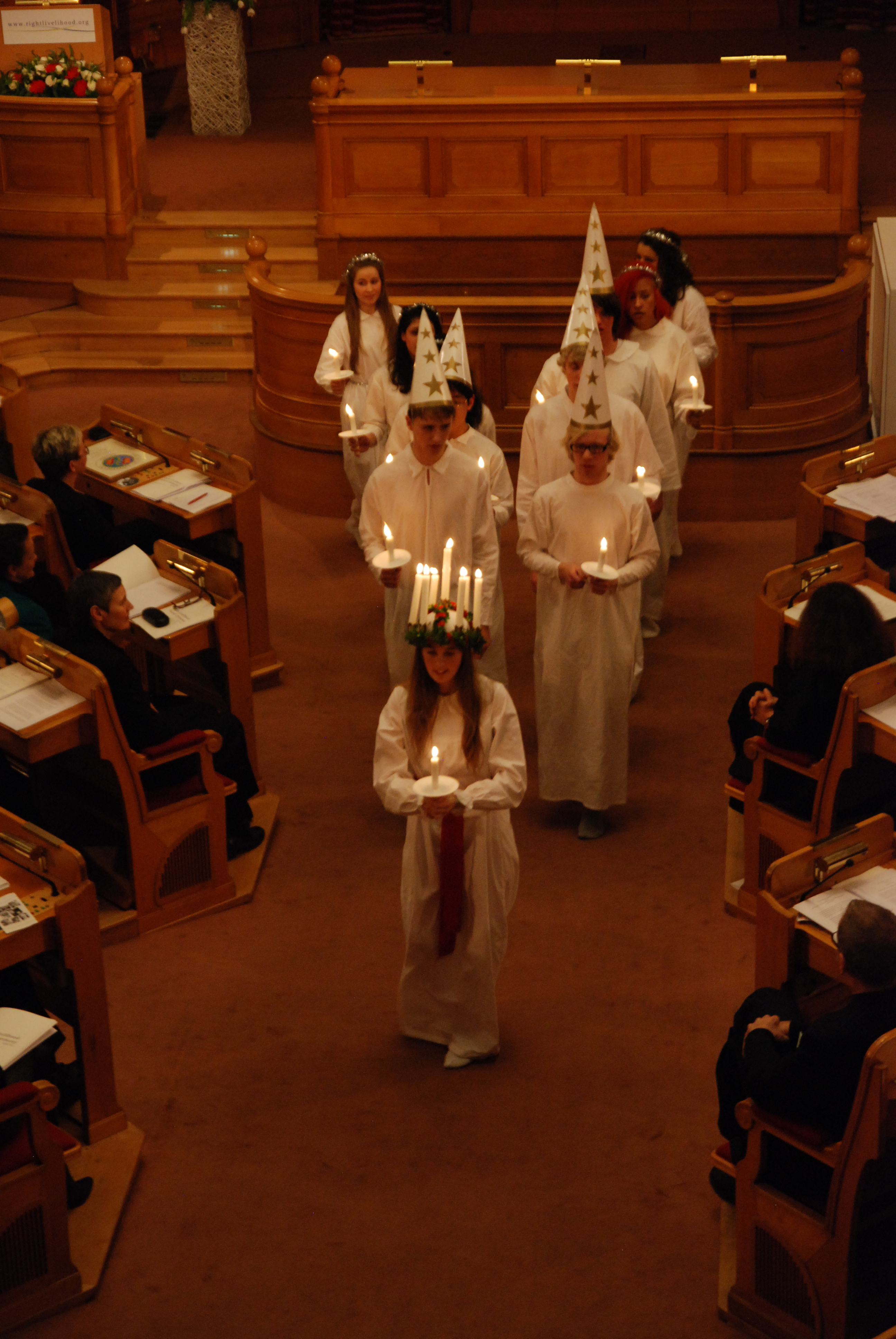 Award Ceremnony of the 30th Right Livelihood Award 2009: St. Lucia procession